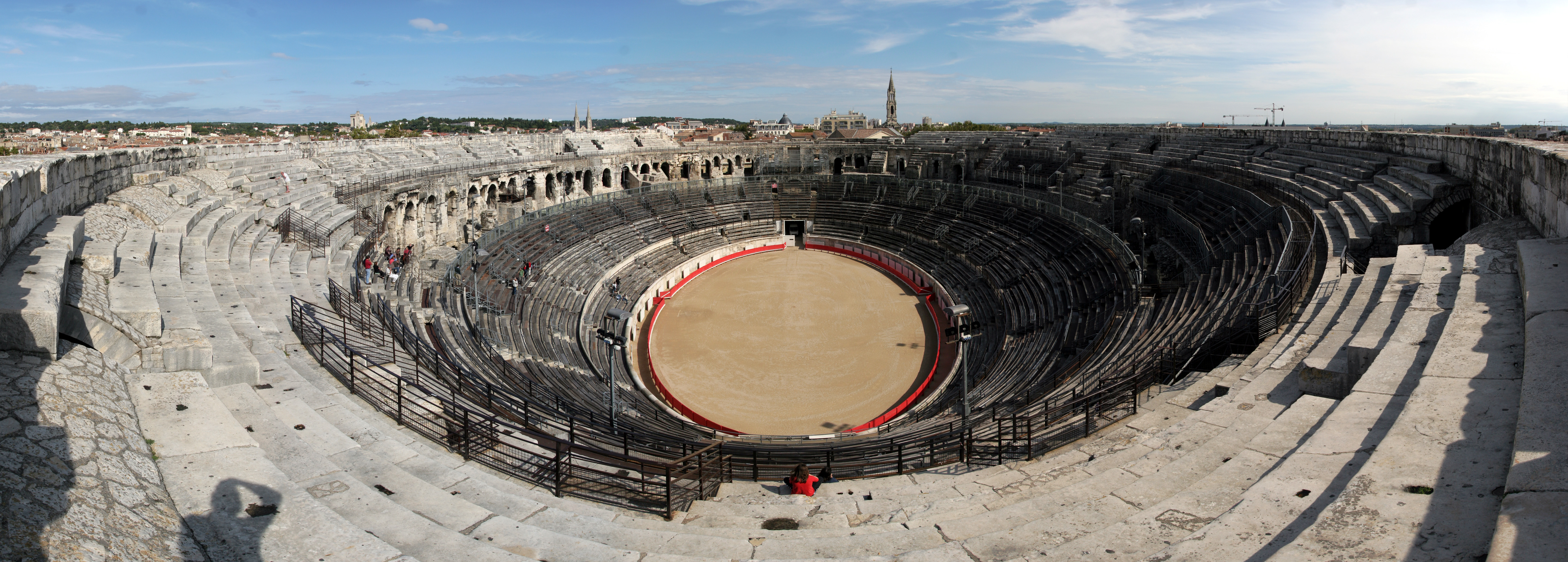 Arena of Nîmes